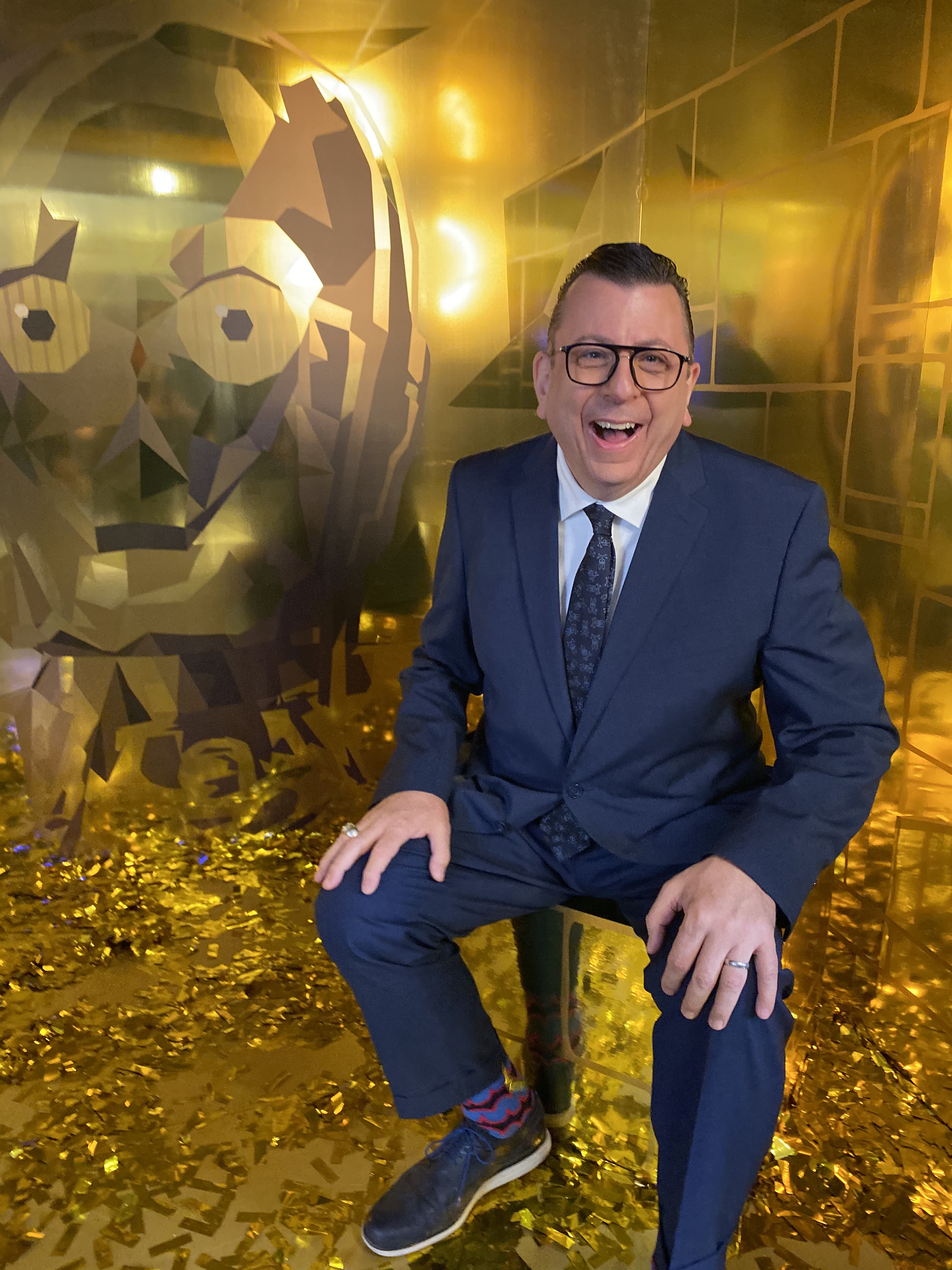 This is a photo of television host Richard Crouse at the Star Wars: The Last Jedi pop up store on Queen Street West in Toronto, Ontario December 2019.